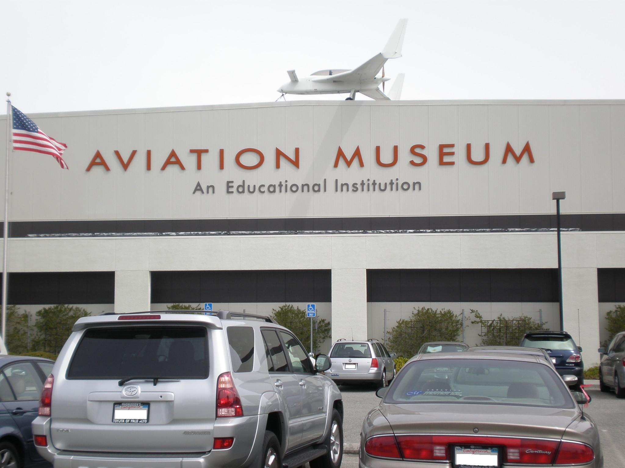 The front of the Hiller Aviation Museum in San Carlos, California. A Rutan Long-EZ is on the roof.